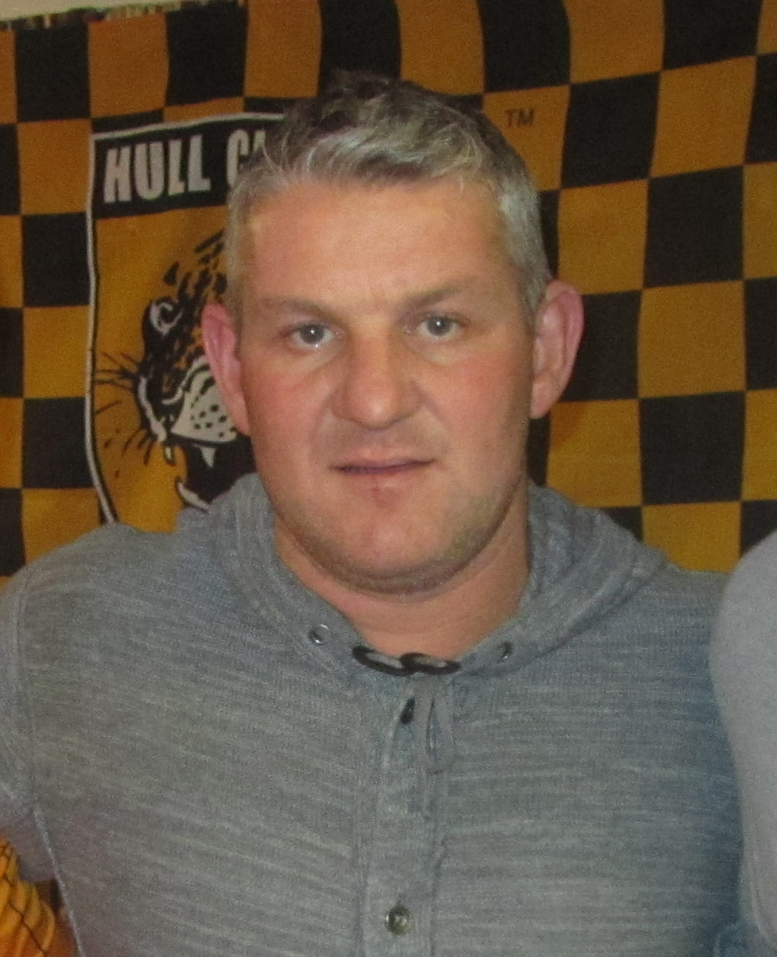 Dean Windass at a Hull City supporters' event on 5 December 2011